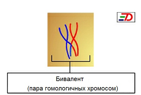 Bivalent